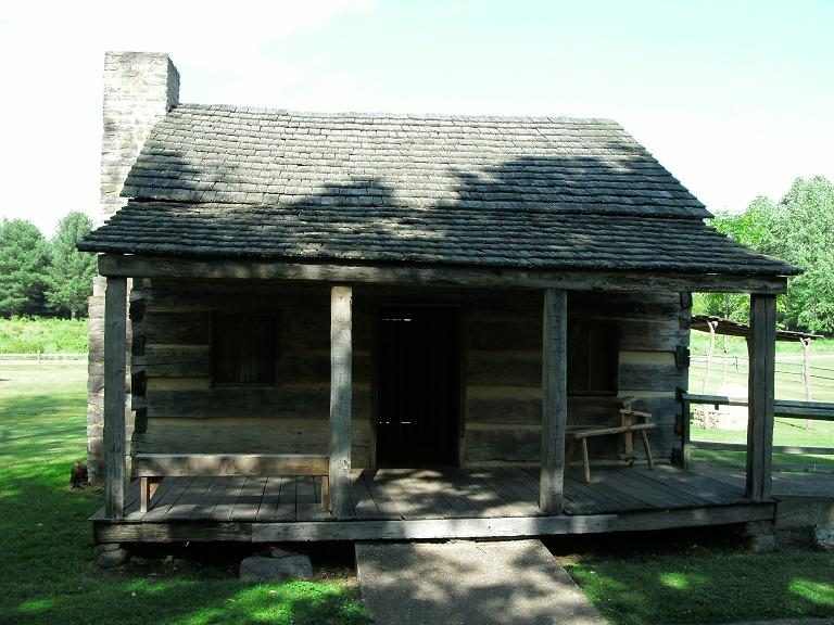 Crockett birth cabin replica at birth site